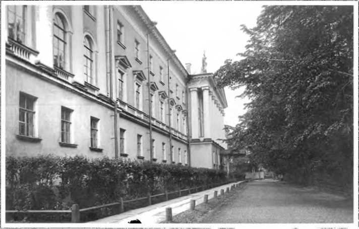 St. Petersburg Theological Academy. Photo of the beginning of the 20th century